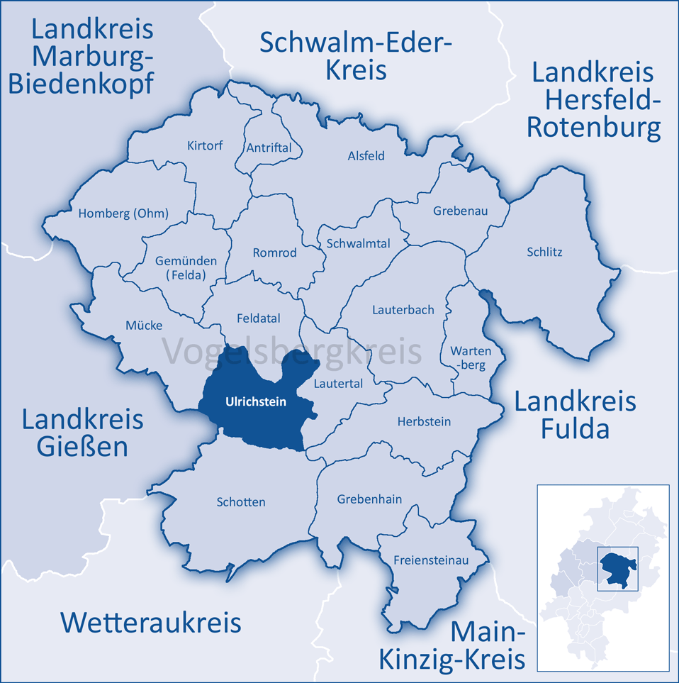 The map shows a district in the area of Vogelsbergkreis